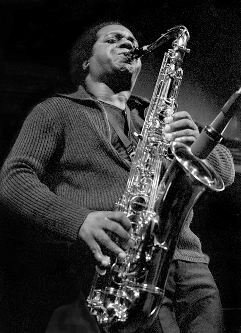 Eddie Harris at Great American Music Hall, San Francisco CA 11/22/80. Photo by Brian McMillen /